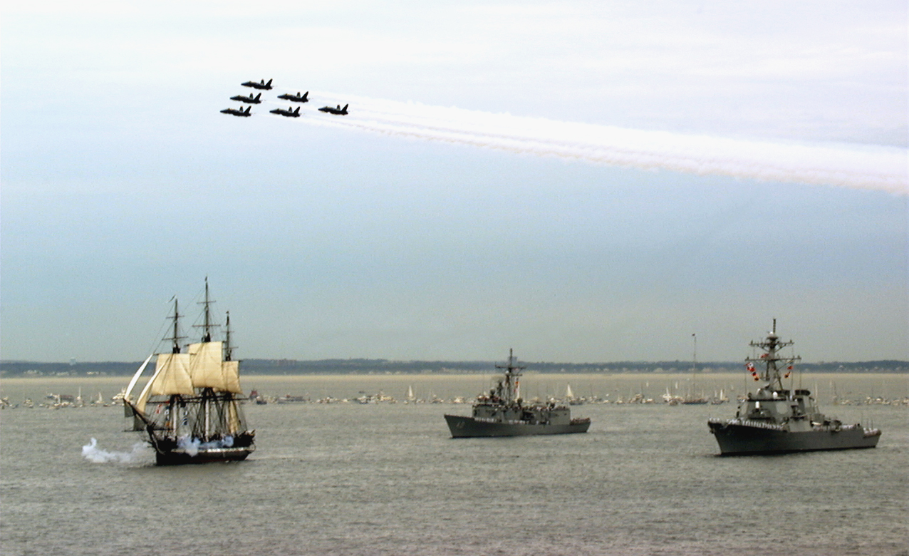 USS Constitution fires her guns in salute while underway in Massachusetts Bay, escorted by the frigate USS Halyburton (FFG-40) (center) and the destroyer USS Ramage (DDG-61) (right), as the United States Navy's "Blue Angels" pass overhead. Commissioned on 21 October 1797, Constitution set sail unassisted for the first time in 116 years.